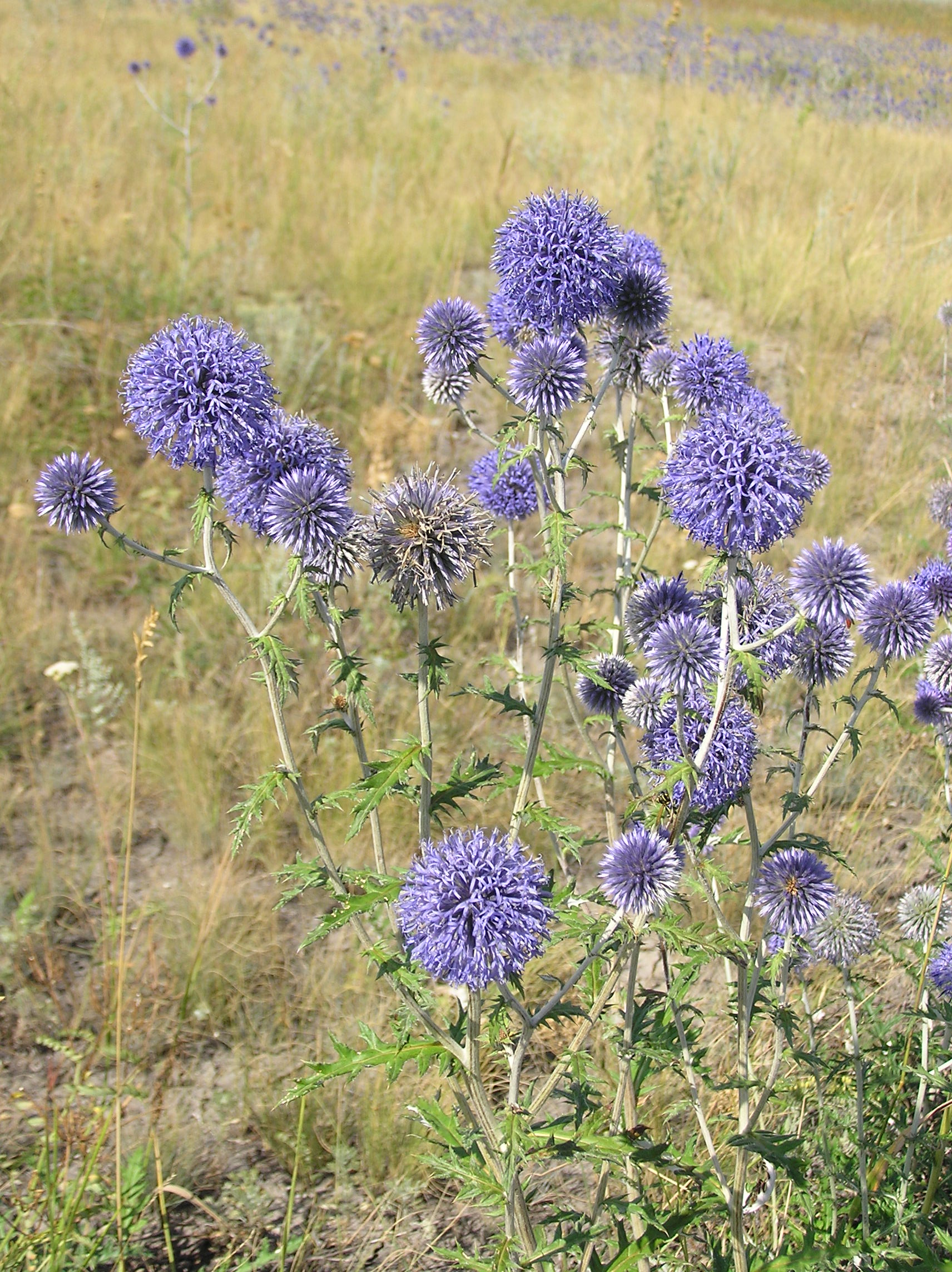 Russian globe thistle (Echinops ritro subsp. ruthenicus (M.Bieb.) Nyman). Habitat: saline steppe. Vicinity of Saratov city, Russia.